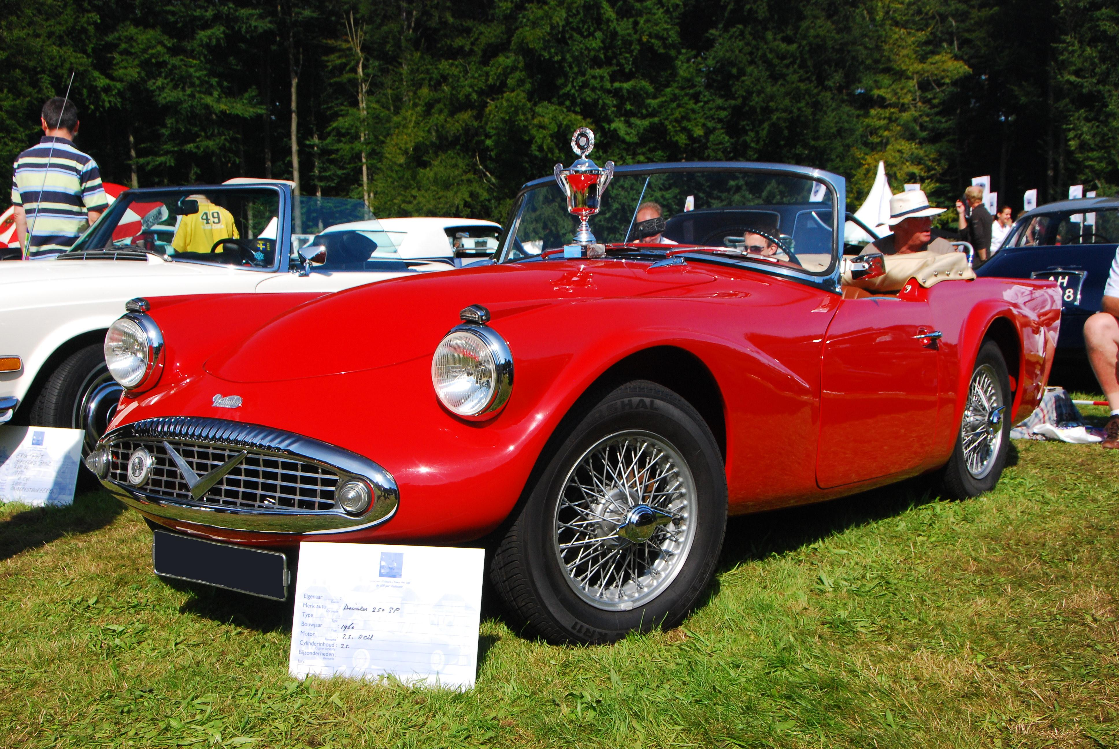 Daimler SP250 seen during Concours d'Elegance 2008, Apeldoorn (NL)